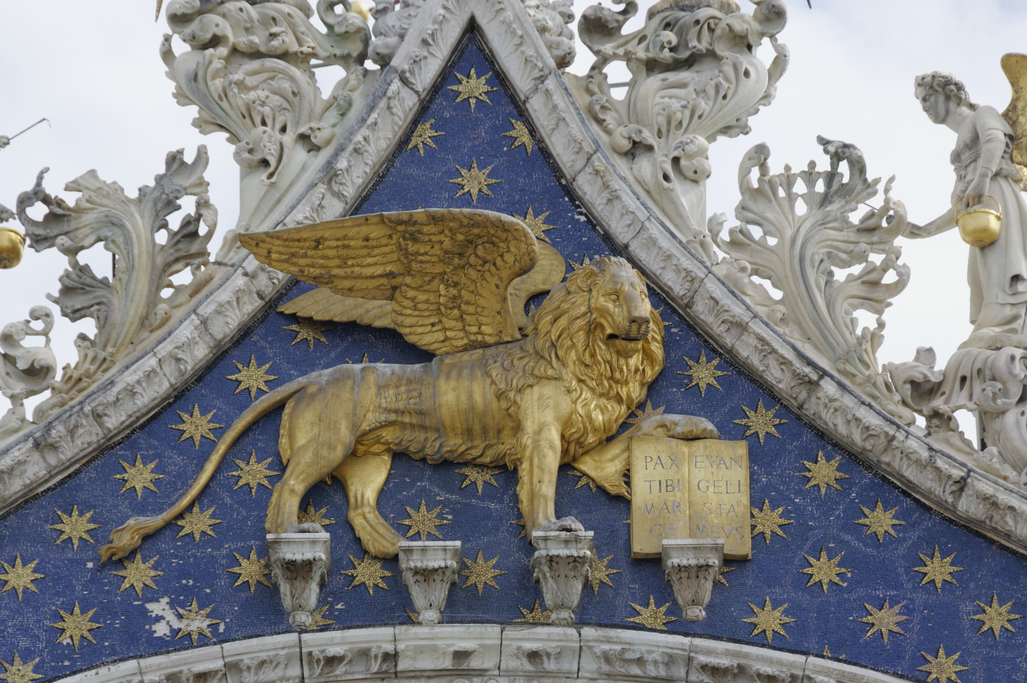 Golden winged lion of St Mark on the pediment of the main portal, West façade of St Mark's Basilica in Venice.